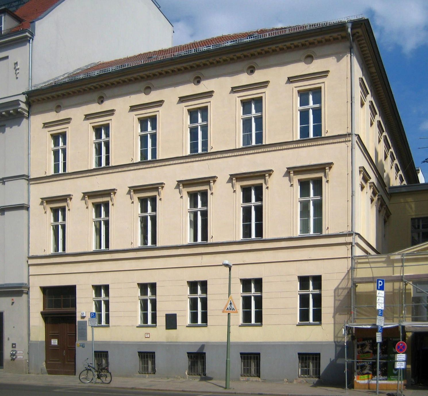 Residential building at Luisenstraße No. 57 in Berlin-Mitte. The house was built in 1840. From 1879 to 1897 it was used by the Imperial Health Office. A memorial plaque informs readers that Robert Koch discovered the Tuberculosis bacillus here. The building is now used by several institutions of the Charité university medical school. The house has been designated as a historic landmark.